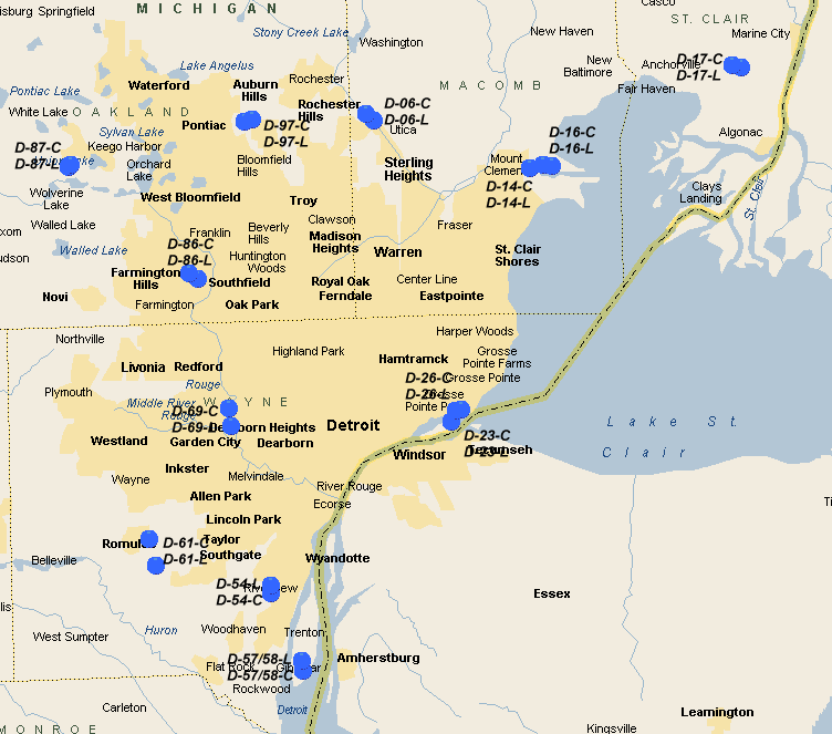 Detroit Defense Area Nike Missile Sites